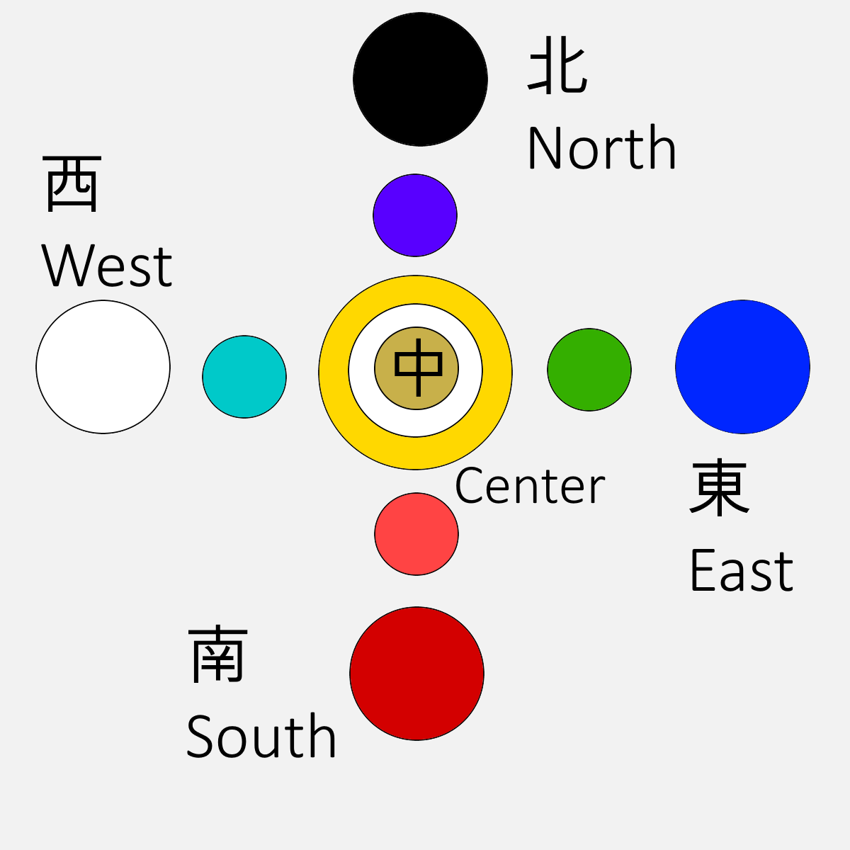 Chinese cardinal and intermediary colors. The cardinal colors are: North: 黑 "black" South: 赤 "red" East: 靑 "blue/green" West: 白 "white" Center: 黃 "yellow" The intermediary colors are: North: 紫 "violet" South: 紅 "vermilion-red" East: 綠 "green" West: 碧 "emerald-blue" Center: 硫 "sulfur-brown"